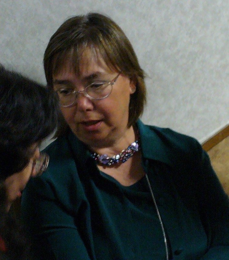 American science fiction author Beth Meacham at Wiscon 30, Wisconsin science fiction convention.